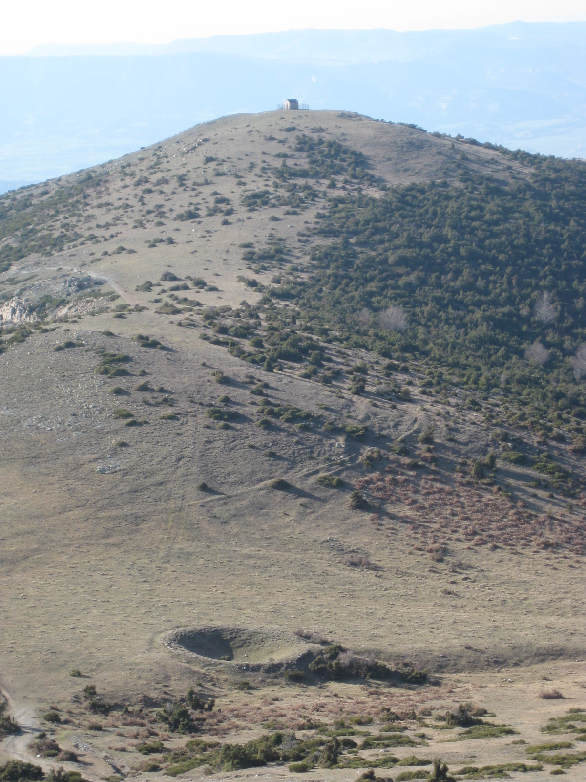 Icehouse in Montseny, near Matagalls mountain